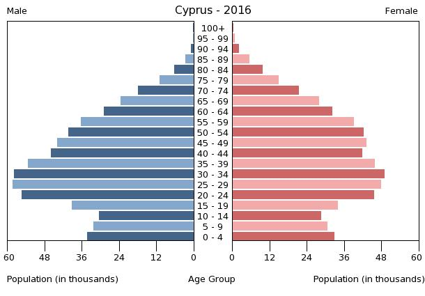 The population pyramid of Cyprus illustrates the age and sex structure of population and may provide insights about political and social stability, as well as economic development. The population is distributed along the horizontal axis, with males shown on the left and females on the right. The male and female populations are broken down into 5-year age groups represented as horizontal bars along the vertical axis, with the youngest age groups at the bottom and the oldest at the top. The shape of the population pyramid gradually evolves over time based on fertility, mortality, and international migration trends.